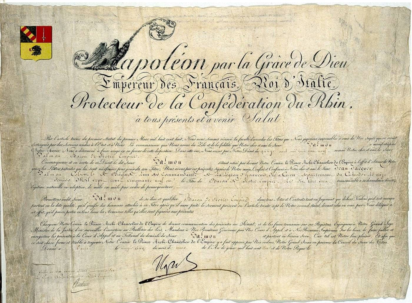 Nobility title of baron Salmon